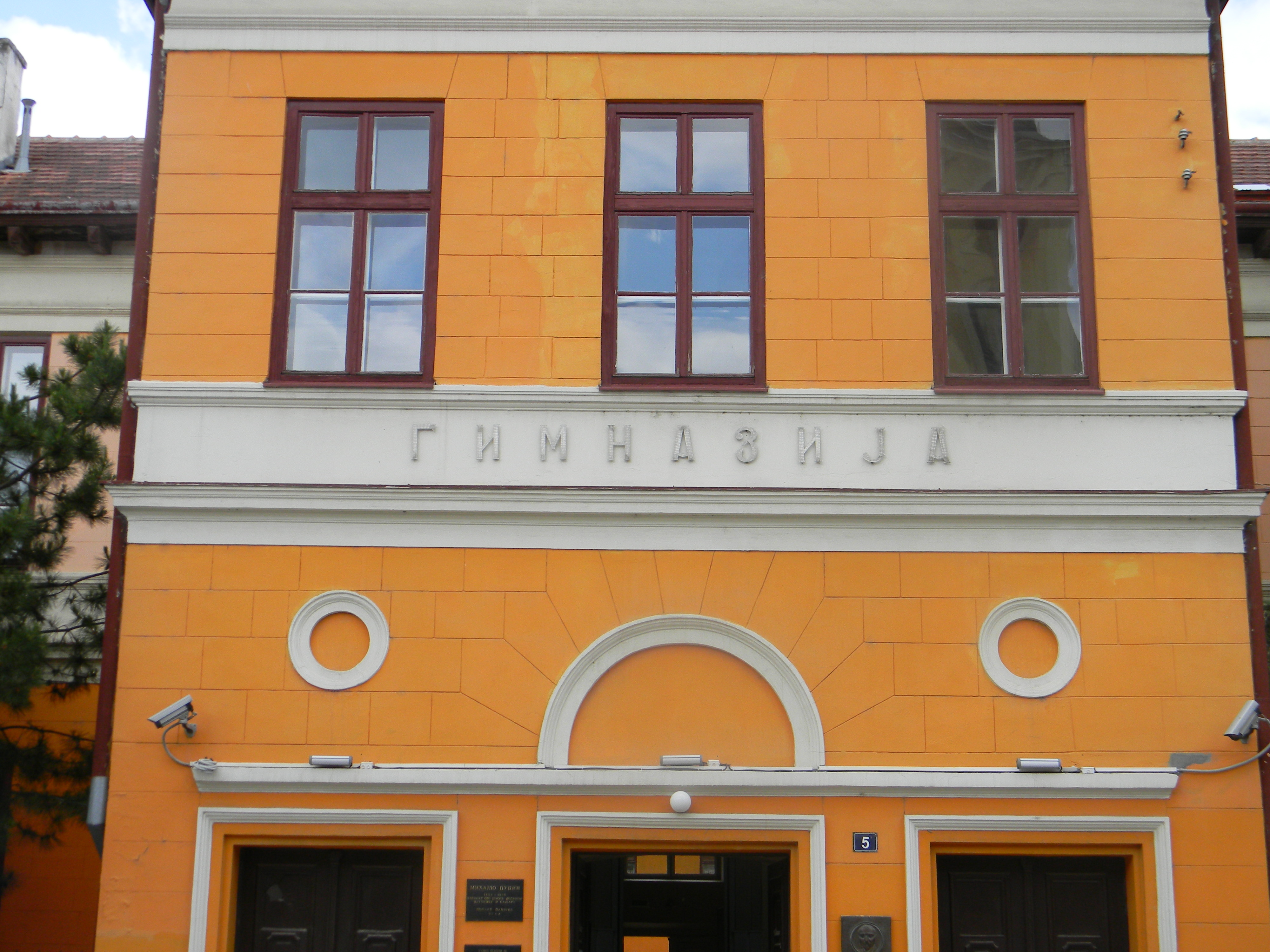 Gimnasium in Pančevo